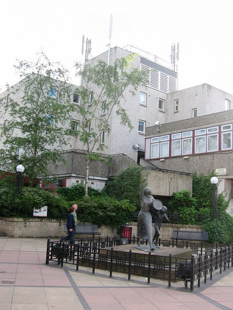 Civic Square, Tranent. Memorial of Tranent Massacre 1797 : Statue of Jackie Crookston and boy, Sculptor David Annand (Fife, 1995–96) [1]